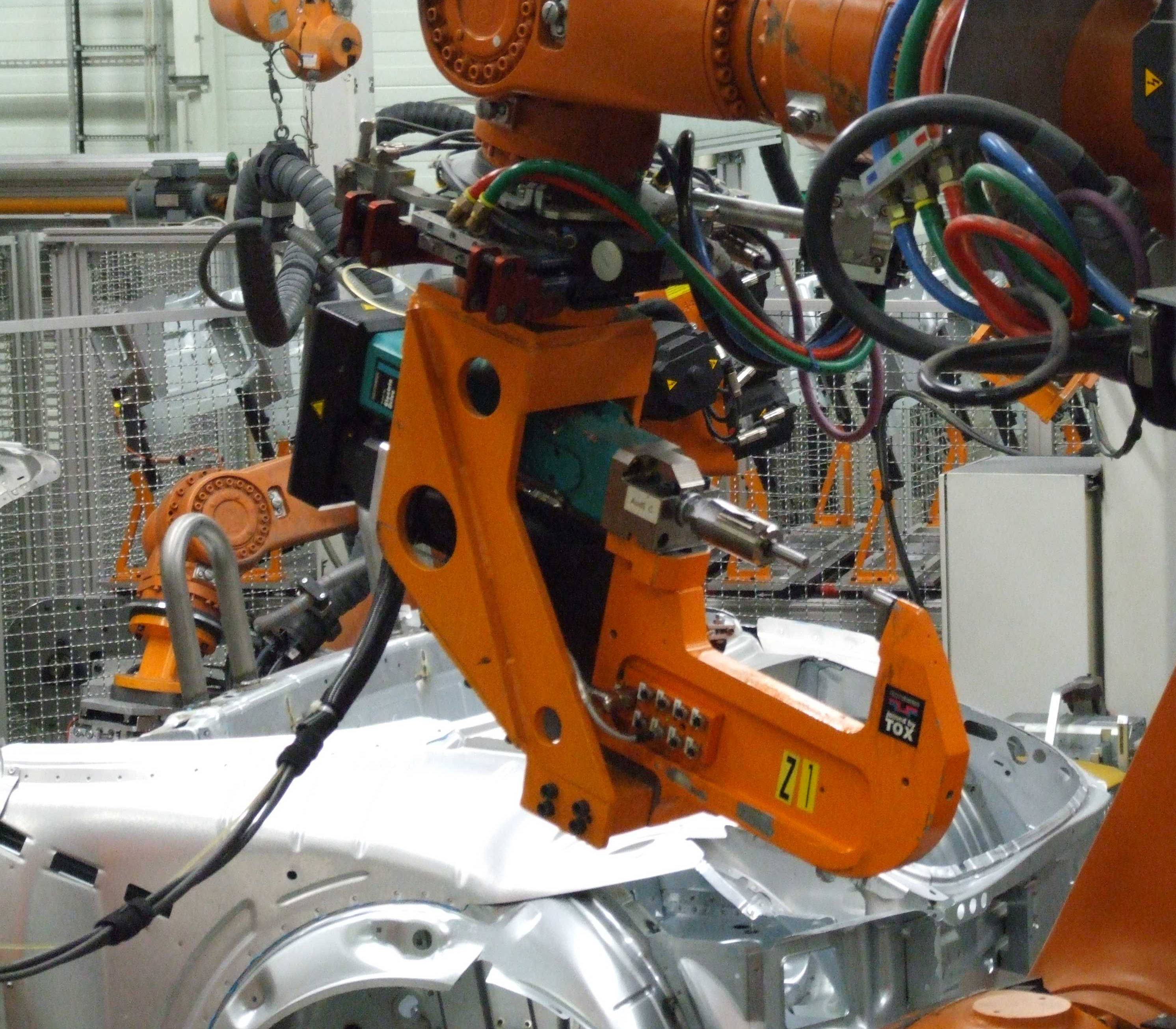 Example automotive clinching process